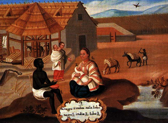 Representation of Zambos during the Latin American colonial period. An example of a pintura de castas. The legend reads "9. De negro é india sale lobo / negro 1. india 2. lobo 3." — "9. From male Black and female Amerindian comes a Lobo (a Mexican synonym for Zambo) offspring / Black 1. Amerindian 2. Lobo 3."